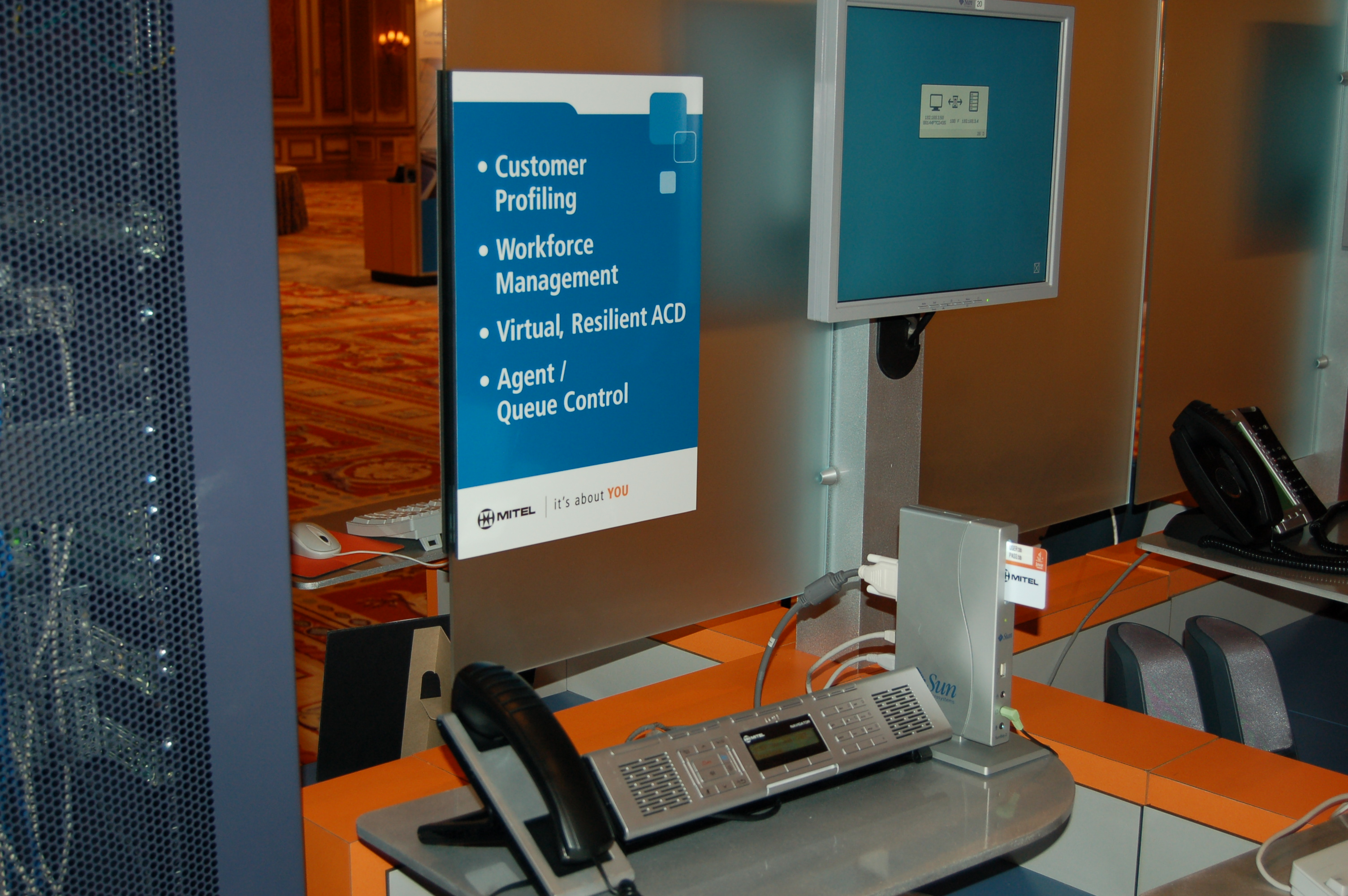 Mitel Forum 2007 event at the Bellagio Hotel and Casino in Las Vegas. Here a display showcasing both Mitel and Sun Microsystems products.